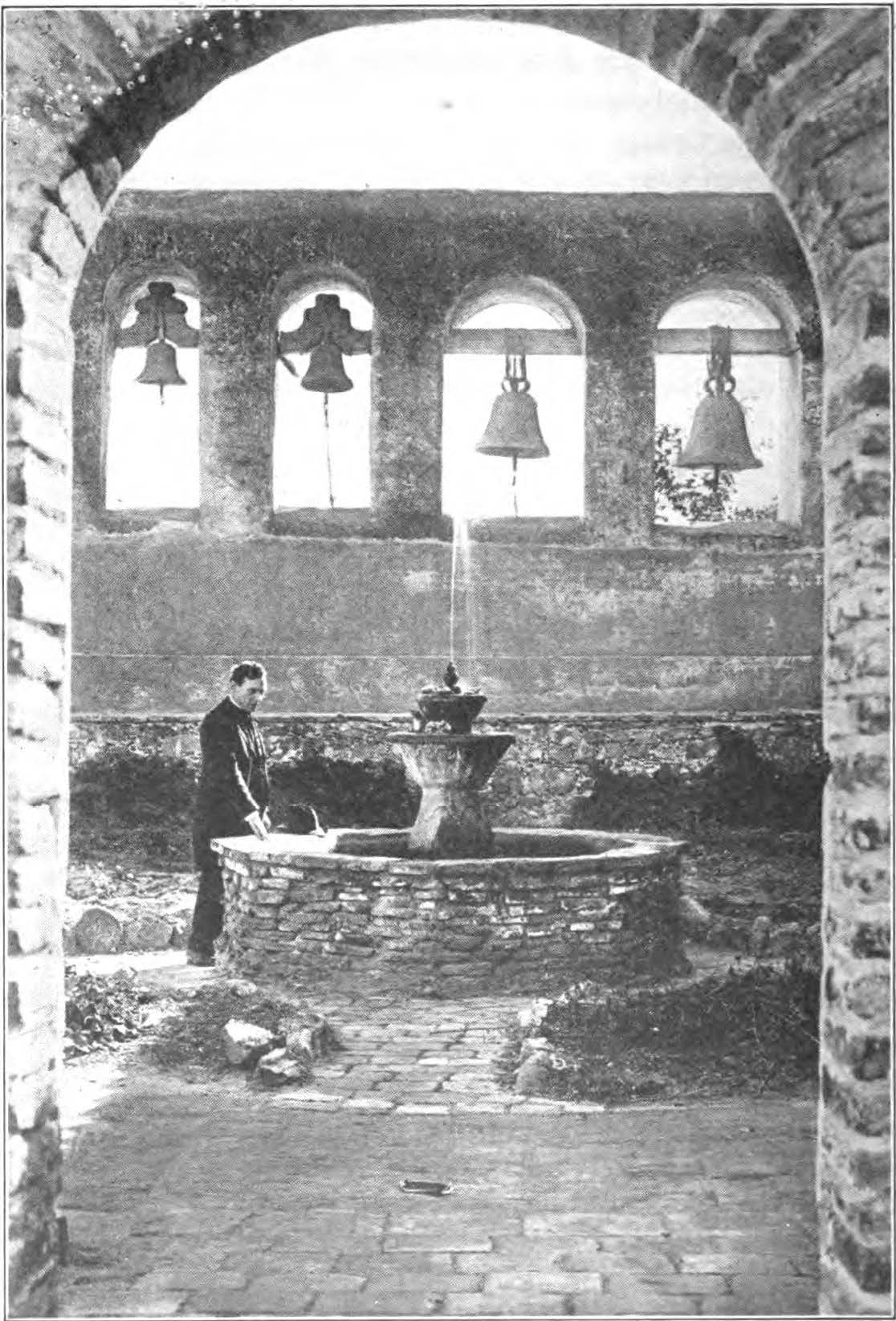 Reverend St. John O'Sullivan in the courtyard between the chapel and temporary vestry, at Mission San Juan Capistrano.